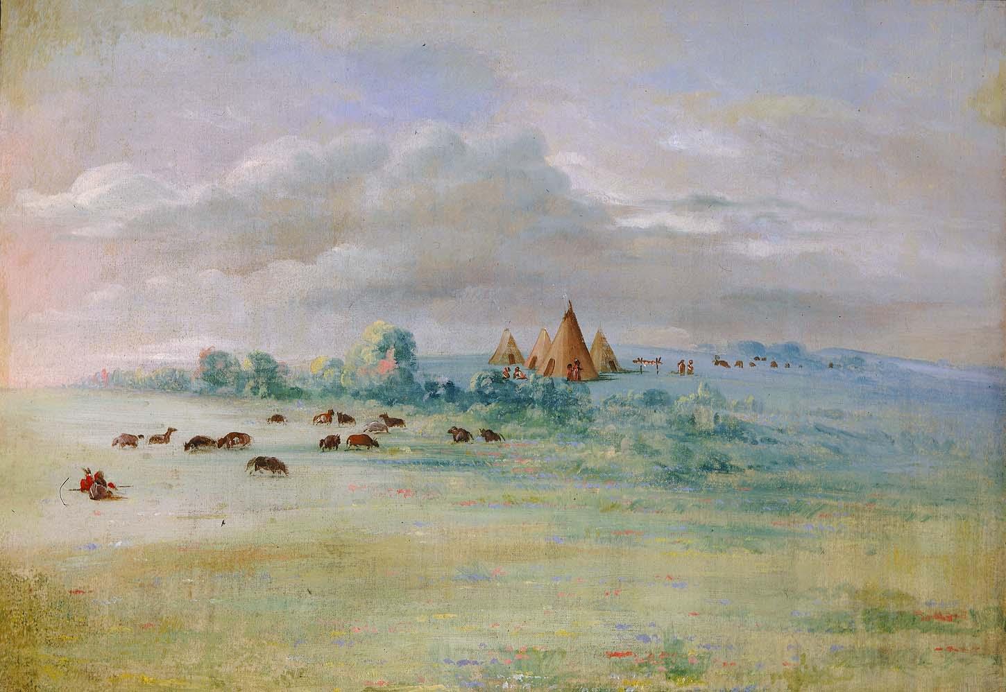 The Dakota agricultural village between 1835-36.